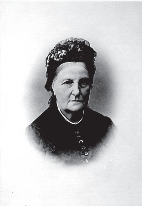 Maria Antonia of Bourbon-Two Sicilies (1814-1898), royal princesse of Bourbon-Two-Sicilies, Grand duchess of Toscana, consort of Leopold II of Habsburg-Lothringen, Grand Duke of Toscana.